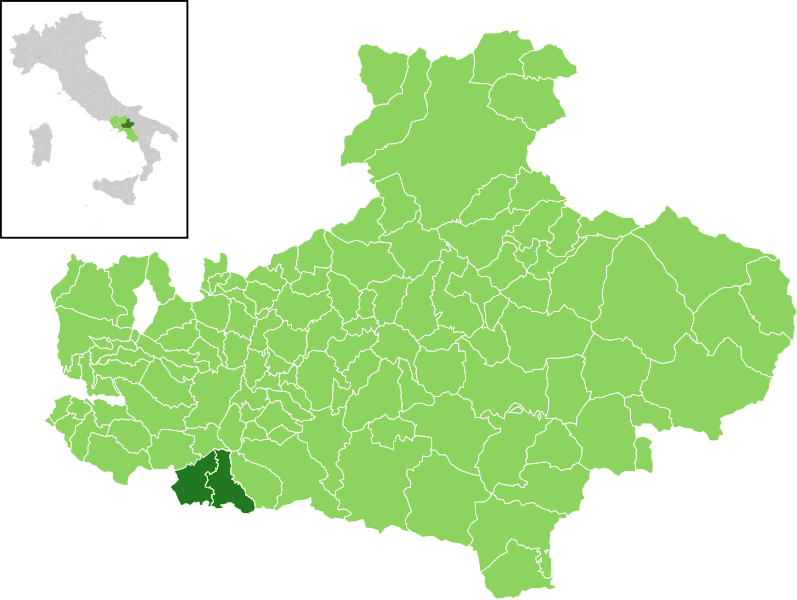 Position of the municipality of Montoro in the Province of Avellino.